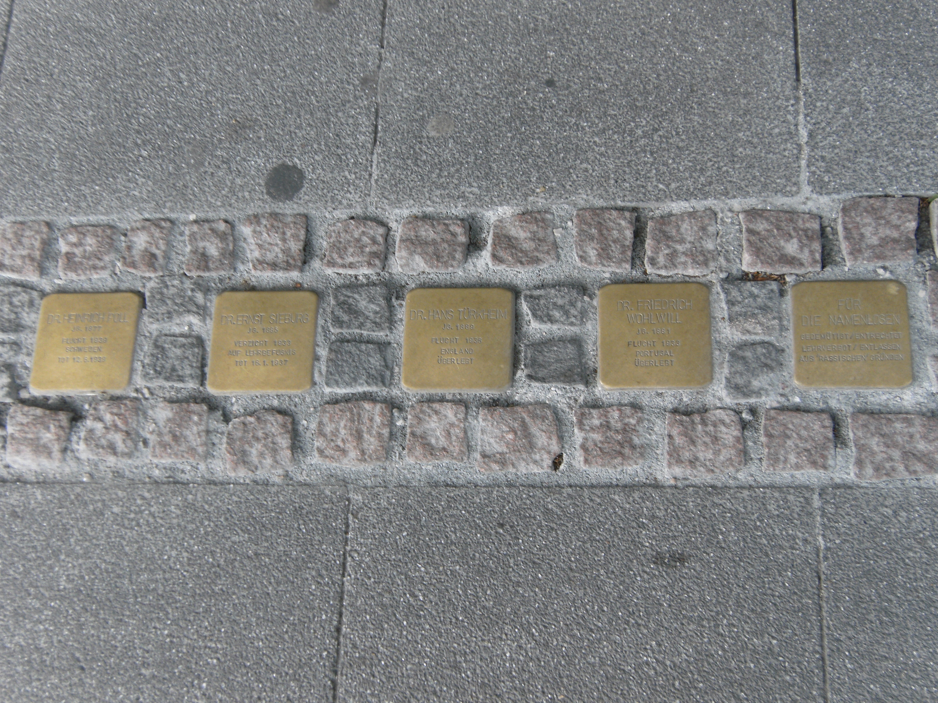 At the entrance to the Neues Klinikum O10 of the Universitätskrankenhaus Hamburg-Eppendorf a row of Stolpersteine (stumbling blocks) was placed to remember. Detail: Flight - dead or alive.